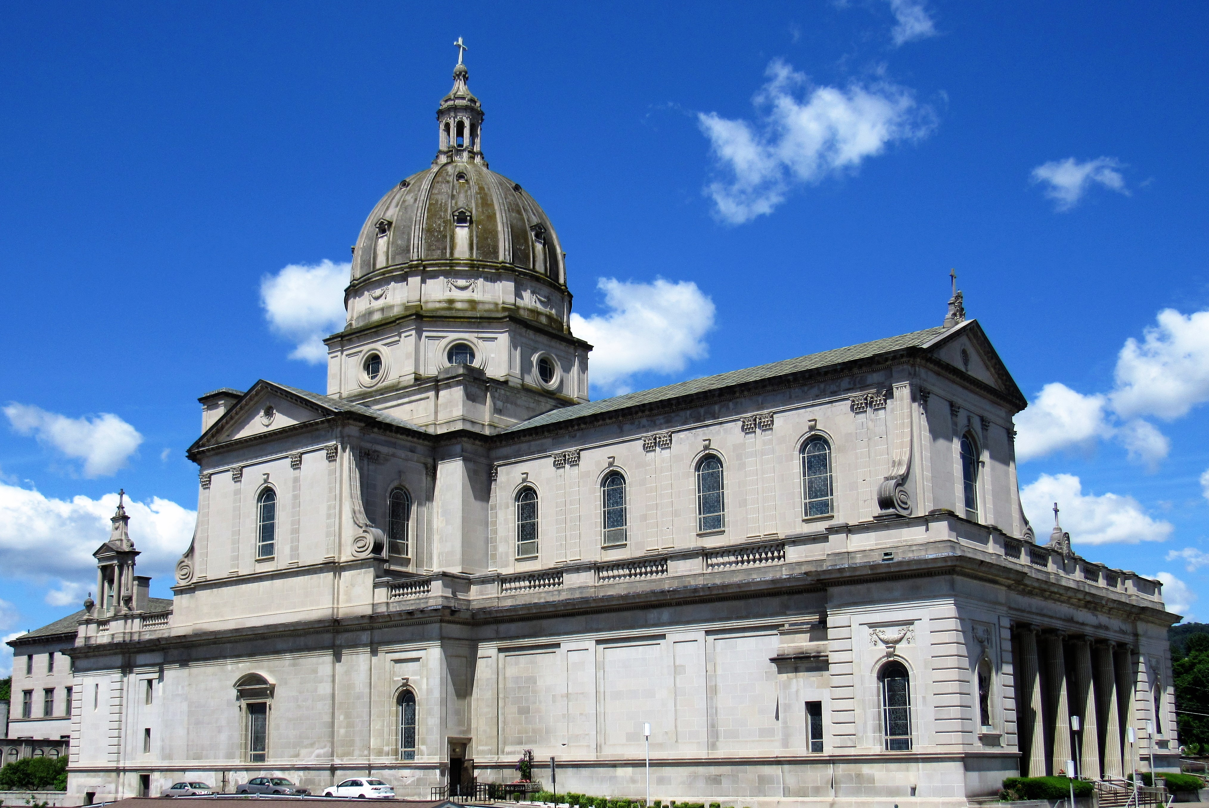 Cathedral of the Blessed Sacrament in Altoona, Pennsylvania.